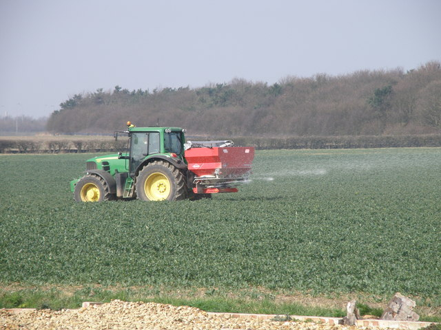 Granular Urea application. A John Deere 6930 tractor with a Kuhn Axis twin disc fertiliser spreader applying Urea to a crop of Oil Seed Rape. Rape crops respond quickly to increased day length and its vital to feed the early growth to ensure the crop yields to its maximum potential.